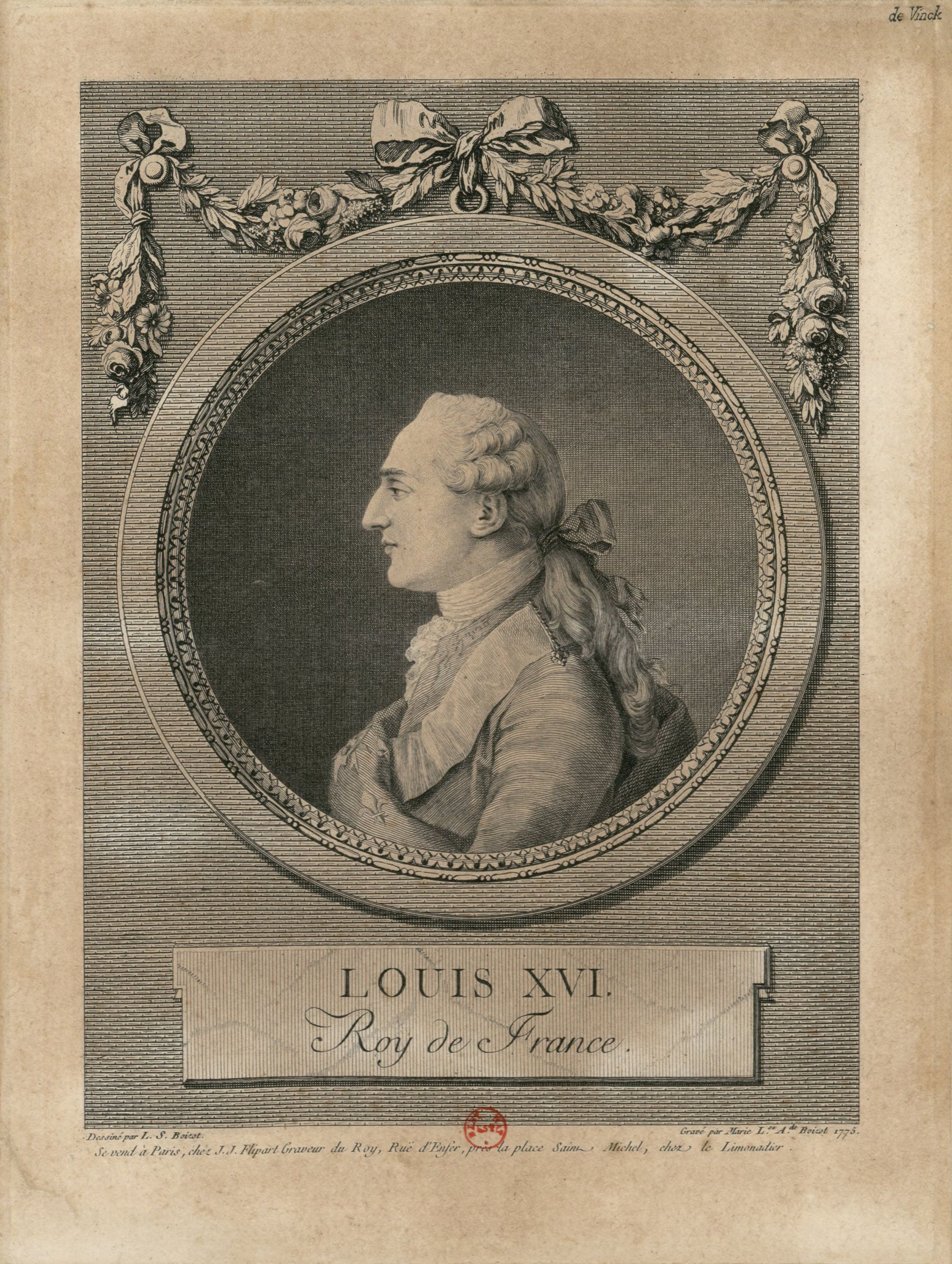 Portrait of Louis XVI of France